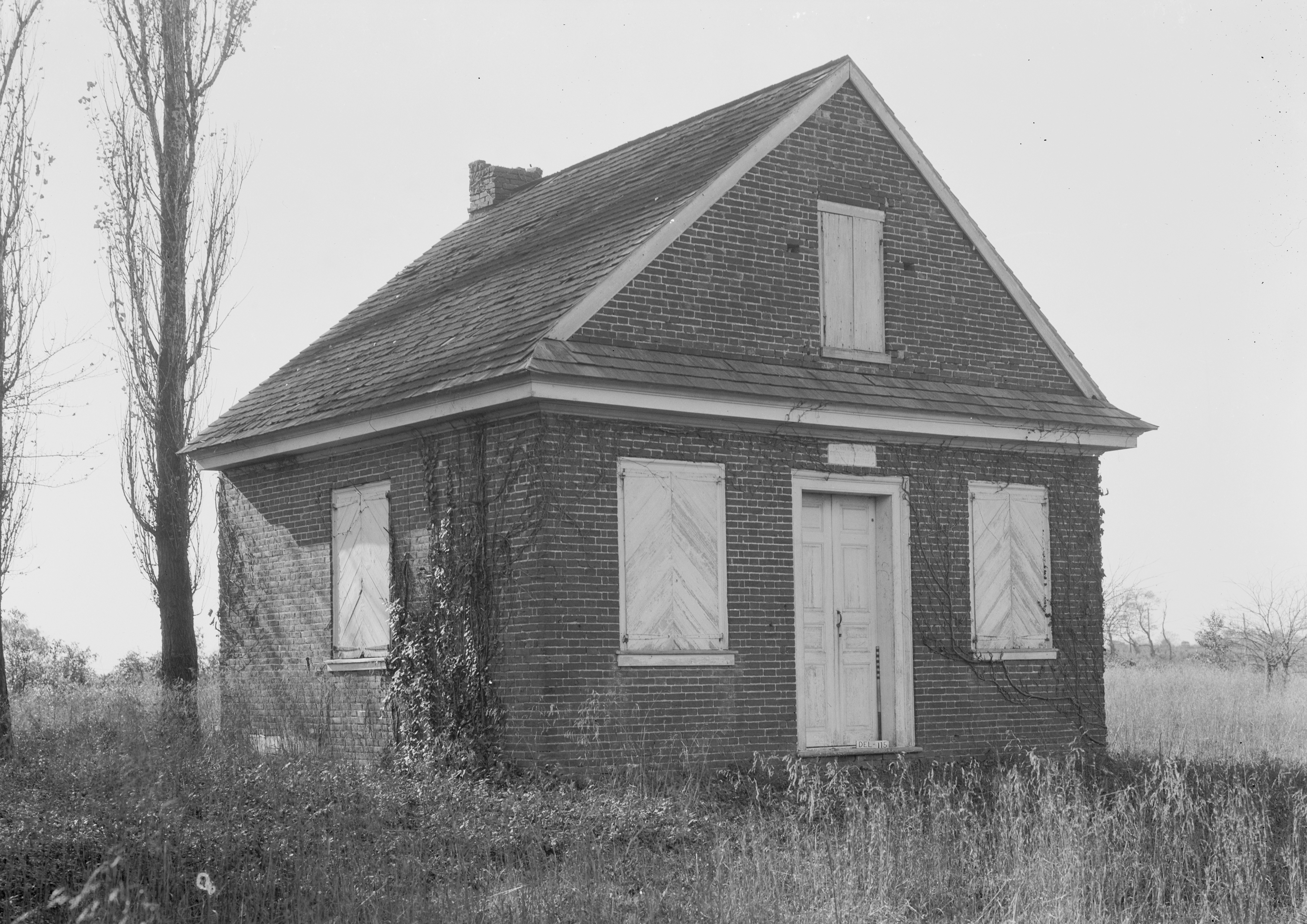 Appoquinimink Friends Meetinghouse built 1785, listed on the NRHP December 4, 1972. On Main St., Odessa, Delaware. Possibly the smallest brick place of worship in the US (20'x22')